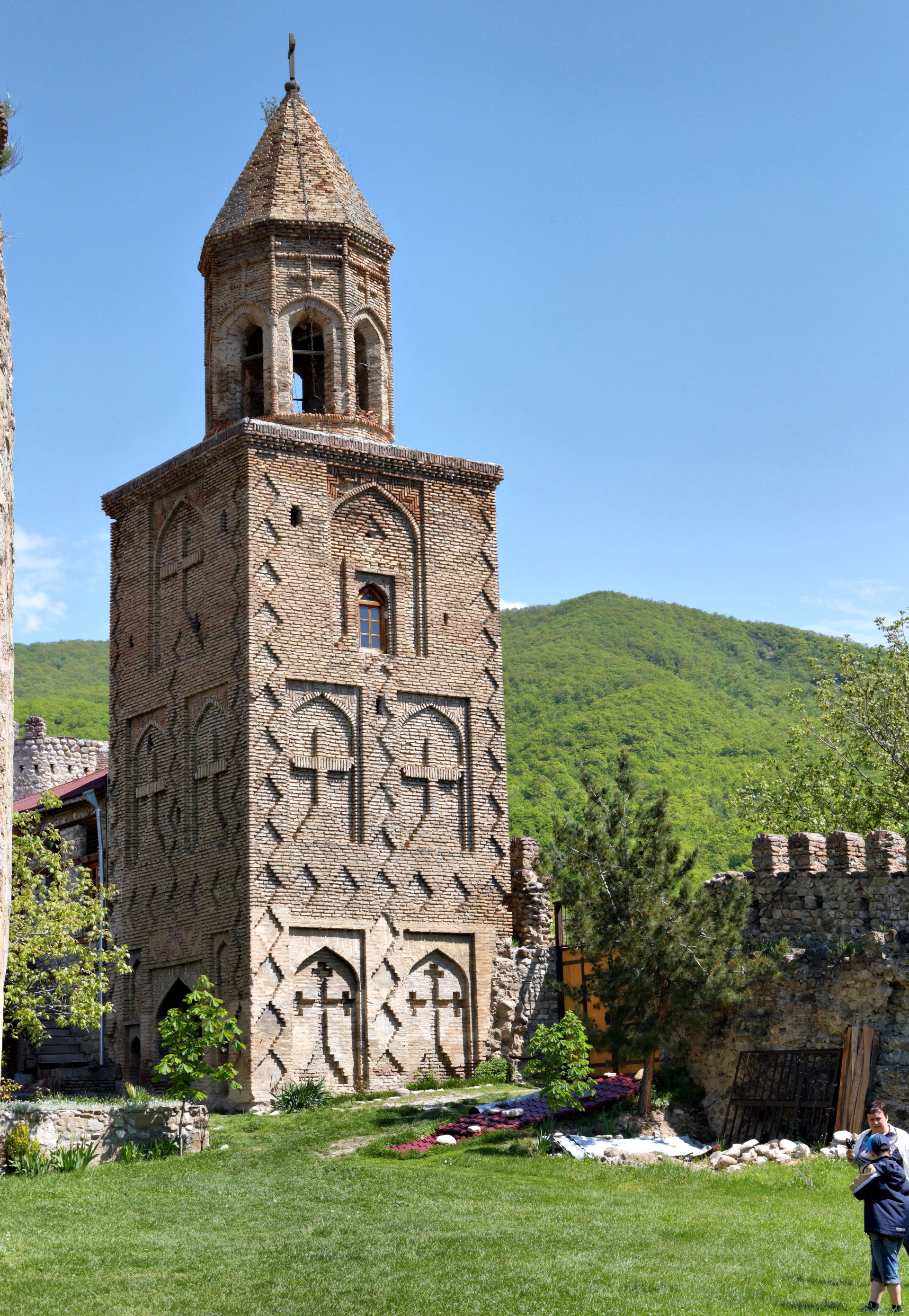 Ninotsminda. Ninotsminda monastery